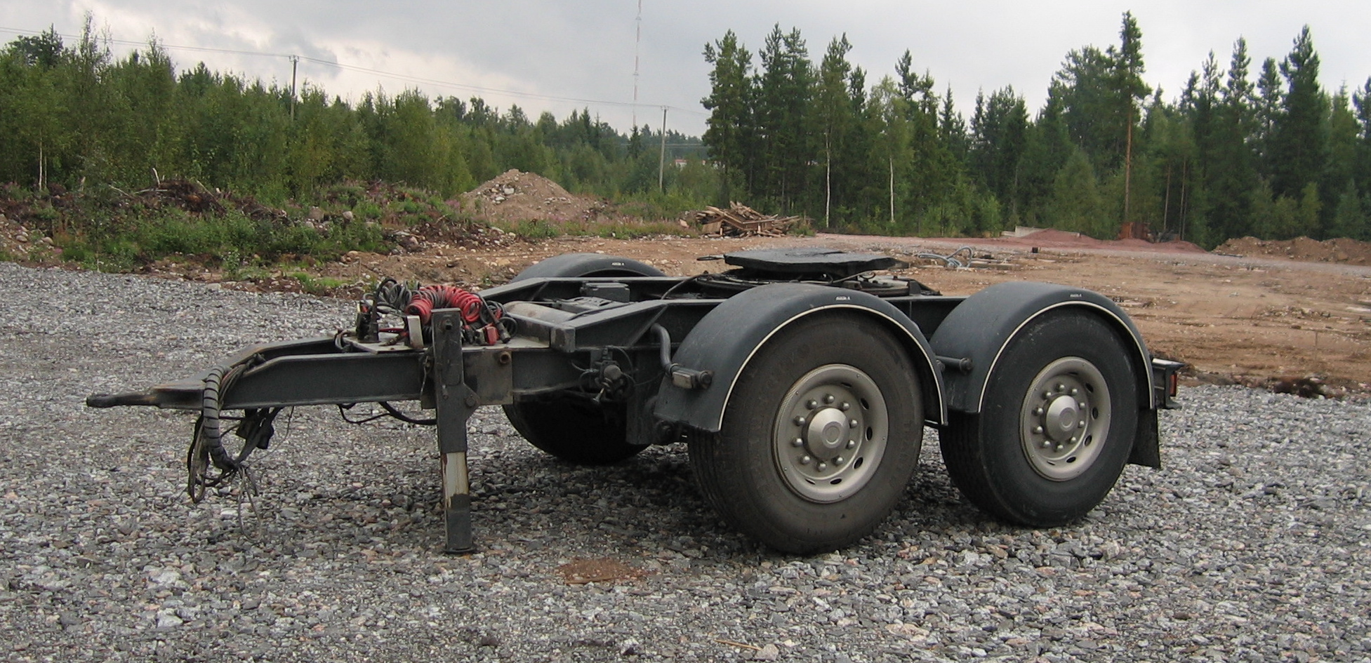 Special mid-axle drawbar trailer called dolly. It is equipped with fifth wheel to couple it with semi-trailer thus creating an A-frame type trailer (full trailer). This is European version of dolly and this type is widely used in Finland and Sweden to pull semi-trailer with rigid truck (straigth truck). In Australia and Northern America same kind of trailer is used, but as far as I know, it's build is somewhat different from this. From left to right, there is hook which is used to couple the dolly to a rigid truck and next to it are air hoses and cords. Above the leg are hoses and cords for semi-trailer. In front of front axle is controller for air suspension. With it dollys suspension can be lifted, lowered and set to driving position. Over the axles is normal fifth wheel and behind the dolly are normal lights and register plate.